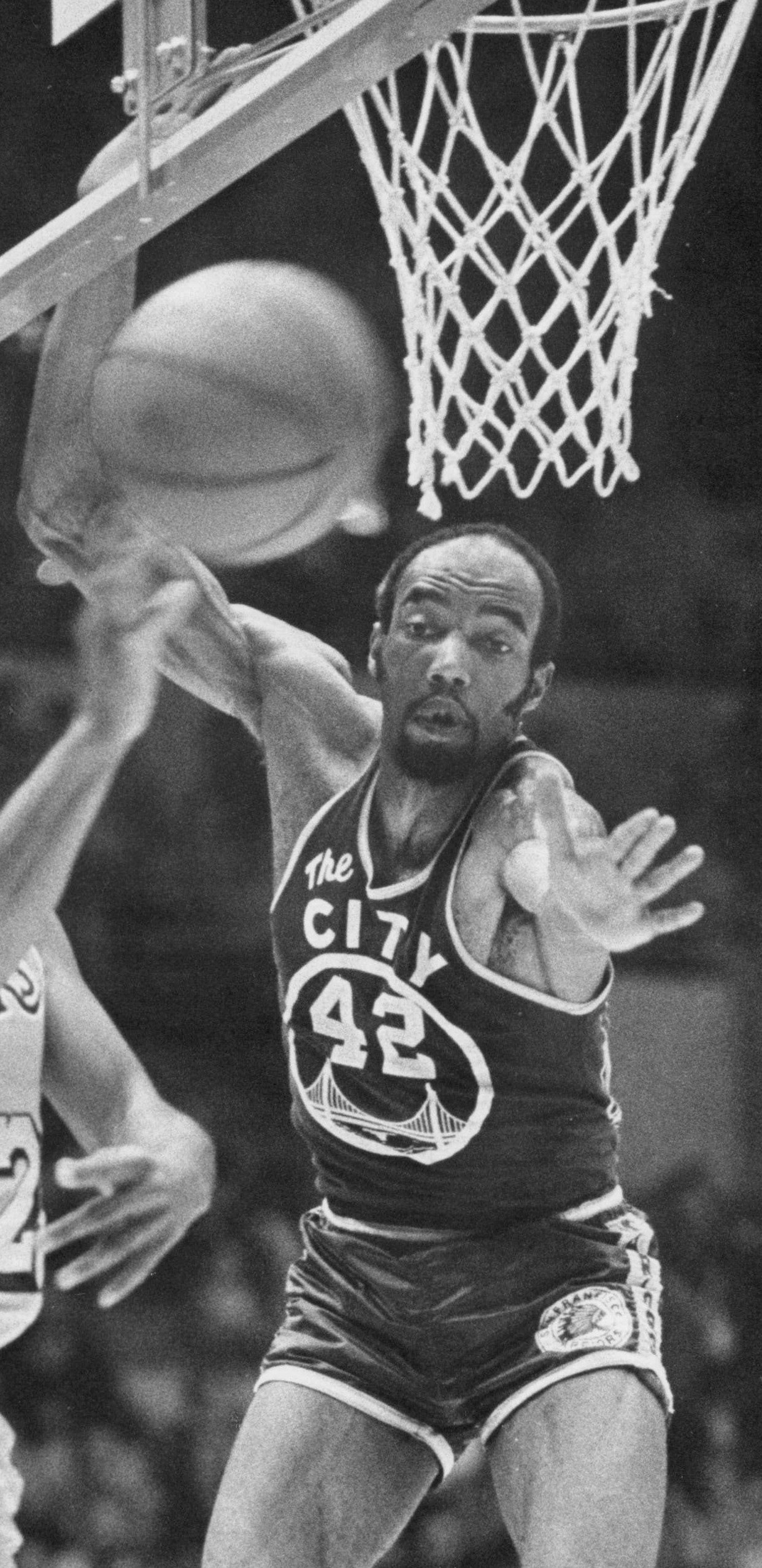 Professional basketball player Nate Thurmond